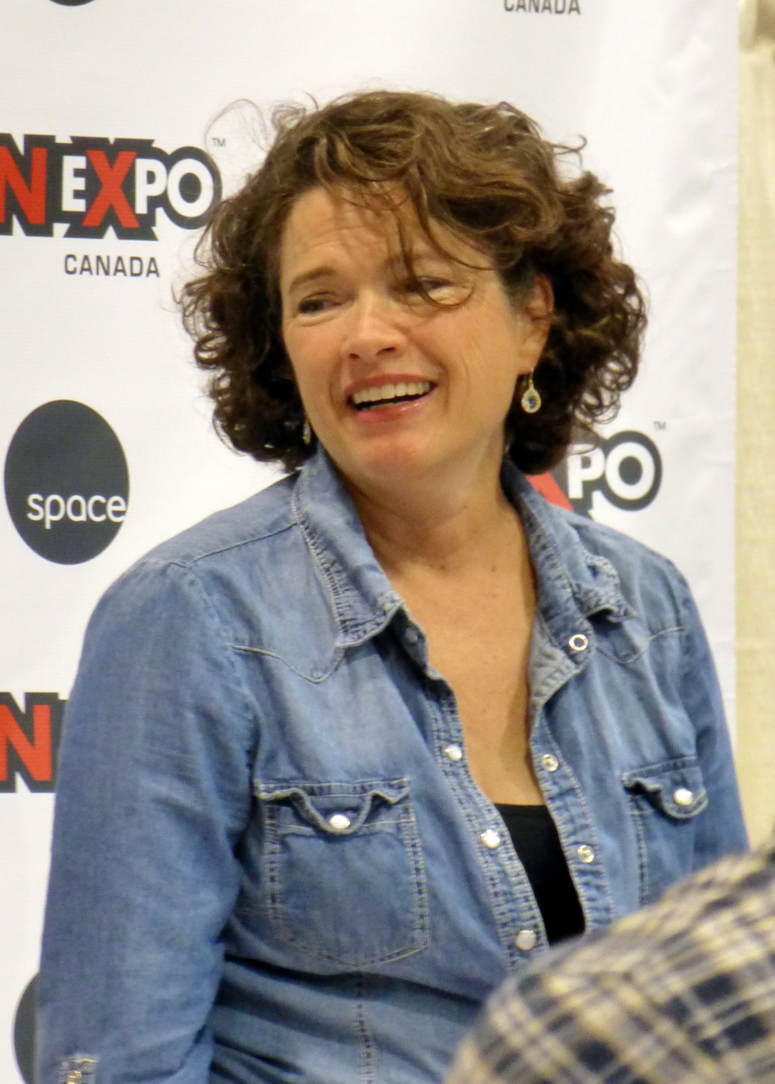 Heather Langenkamp 02 2014 Fan Expo Canada